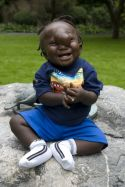 Baby with encephalocele